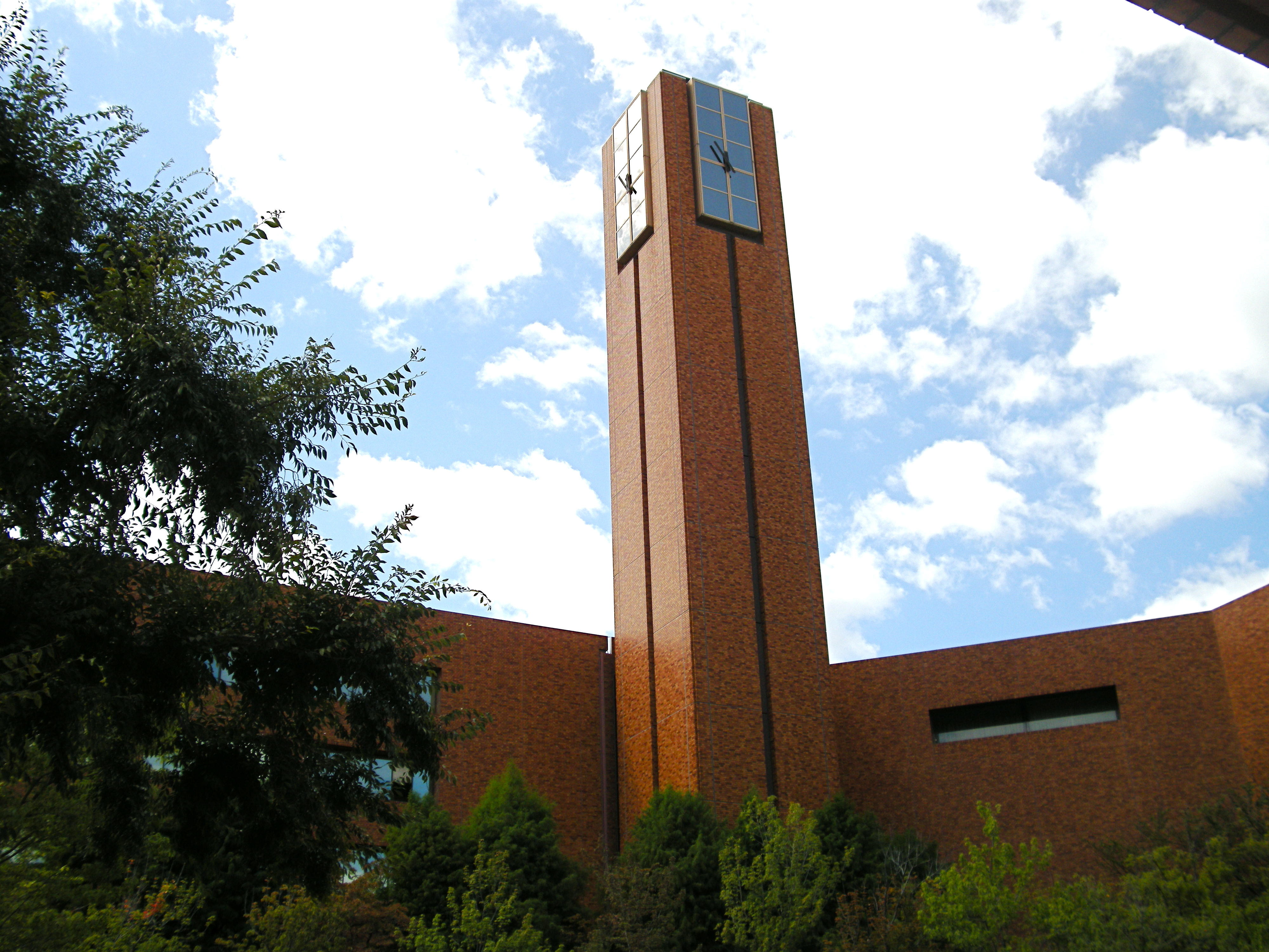 Clock Tower of Osaka Gakuin University (Osaka, Japan)